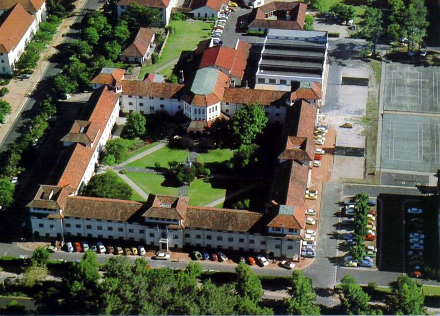 Dagbreek